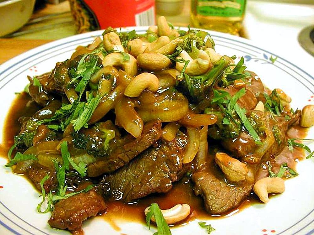 Image title: Beef teriyaki cooking dinner grilled food peapods peanuts Image from Public domain images website